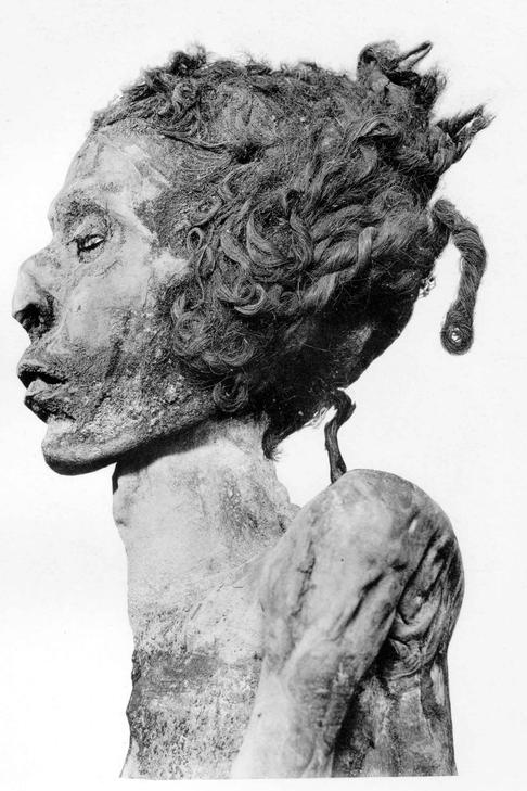 Mummy of Djedptahiufankh, 3rd/4th Priest of Amun in Thebes during the 21st/22nd dynasty, found in DB320.